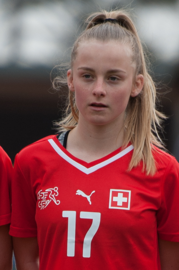 UEFA European Women's U17 Championship elite round Germany vs. Switzerland, 2016-03-19